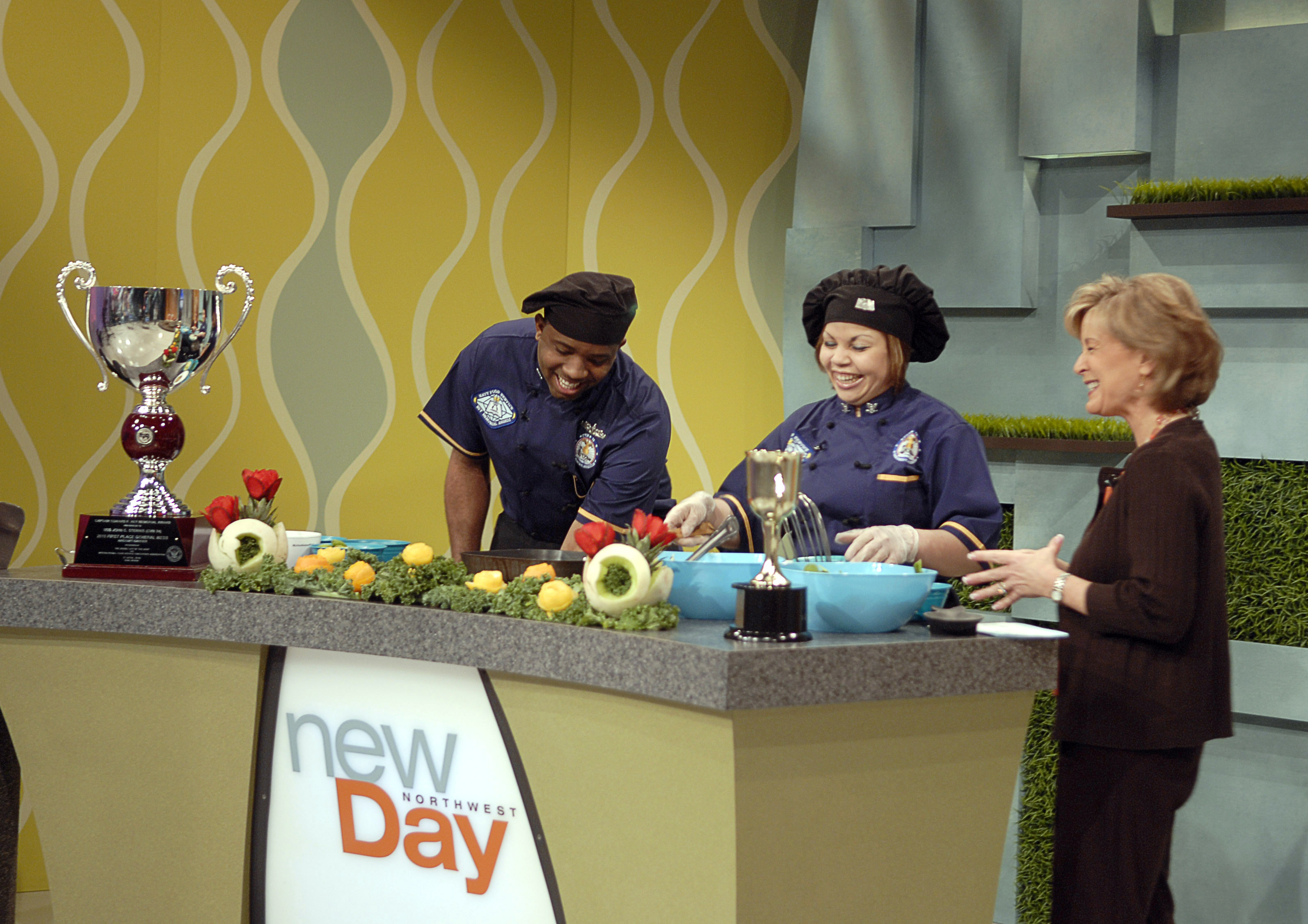 SEATTLE (May 27, 2010) Culinary Specialist 2nd Class Harold Dayse, left, from Beaumont, Texas, and Culinary Specialist 3rd Class Francine Henry, from Miami, cook live on the set of the King 5 TV Show, New Day Northwest, with talk show host Margaret Larson. Dayse and Henry are stationed aboard the Nimitz-class aircraft carrier USS John C. Stennis (CVN 74) and were invited to cook on the show in honor of Memorial Day. In February, Stennis won the 2010 Navy Capt. Edward F. Ney Memorial Award for food service excellence among U.S. Navy aircraft carriers. (U.S. Navy photo by Mass Communication Specialist Timothy Aguirre/Released)